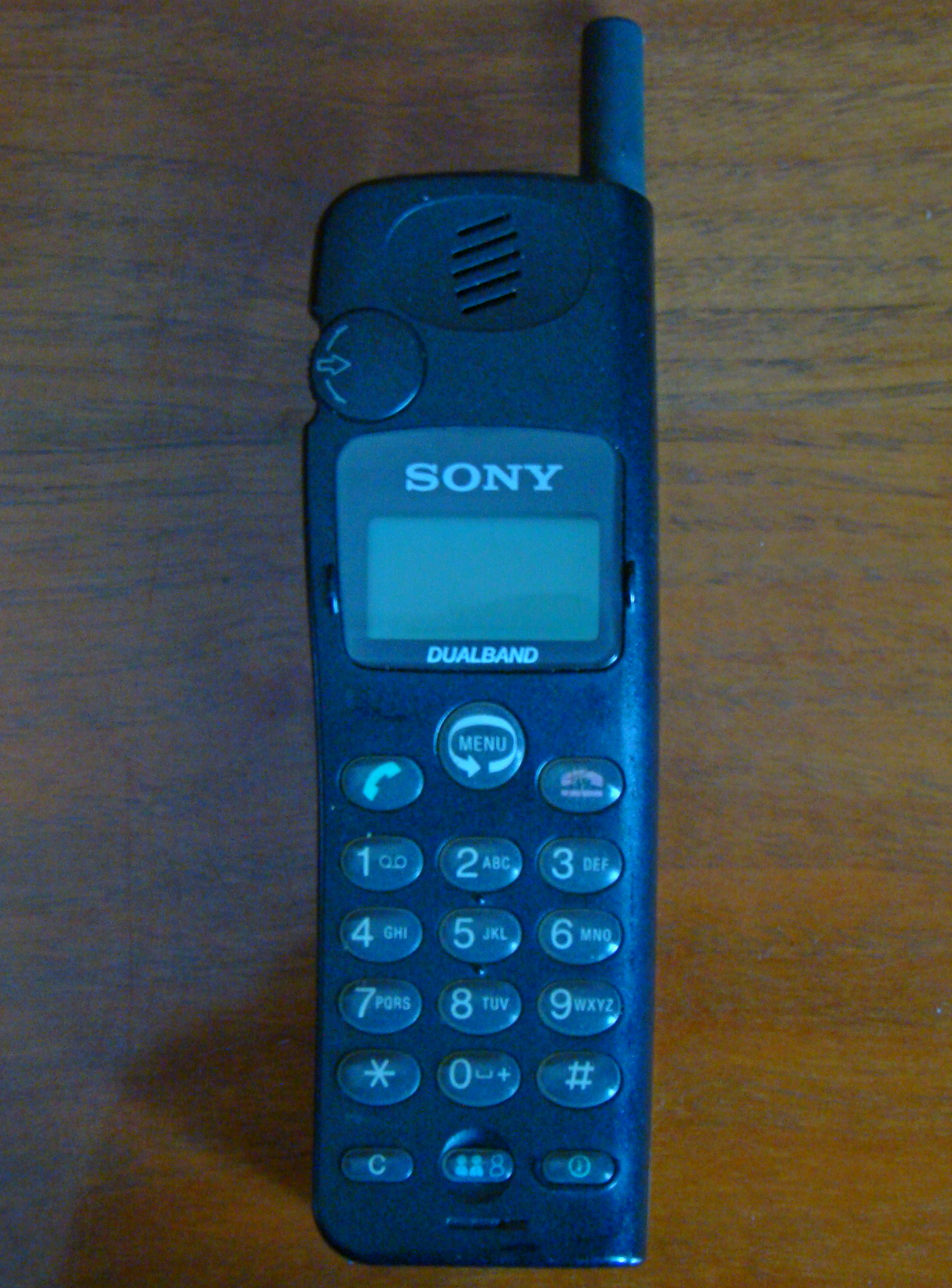 Mobile telephone SONY CMD-CD5